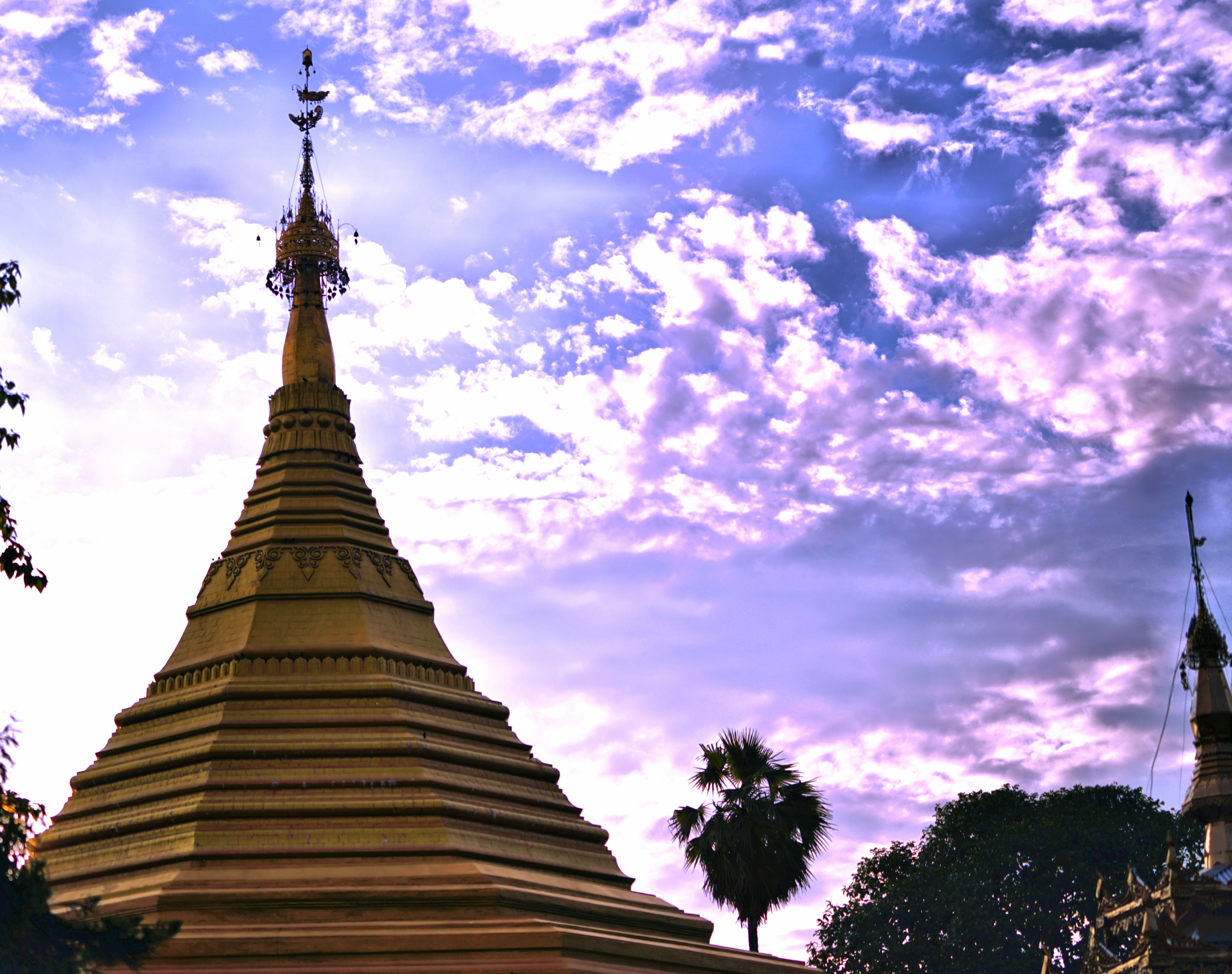 The Golden Stupa of Kyaikhtisaung Pagoda in 2016 by photographer Ye Myat Tun